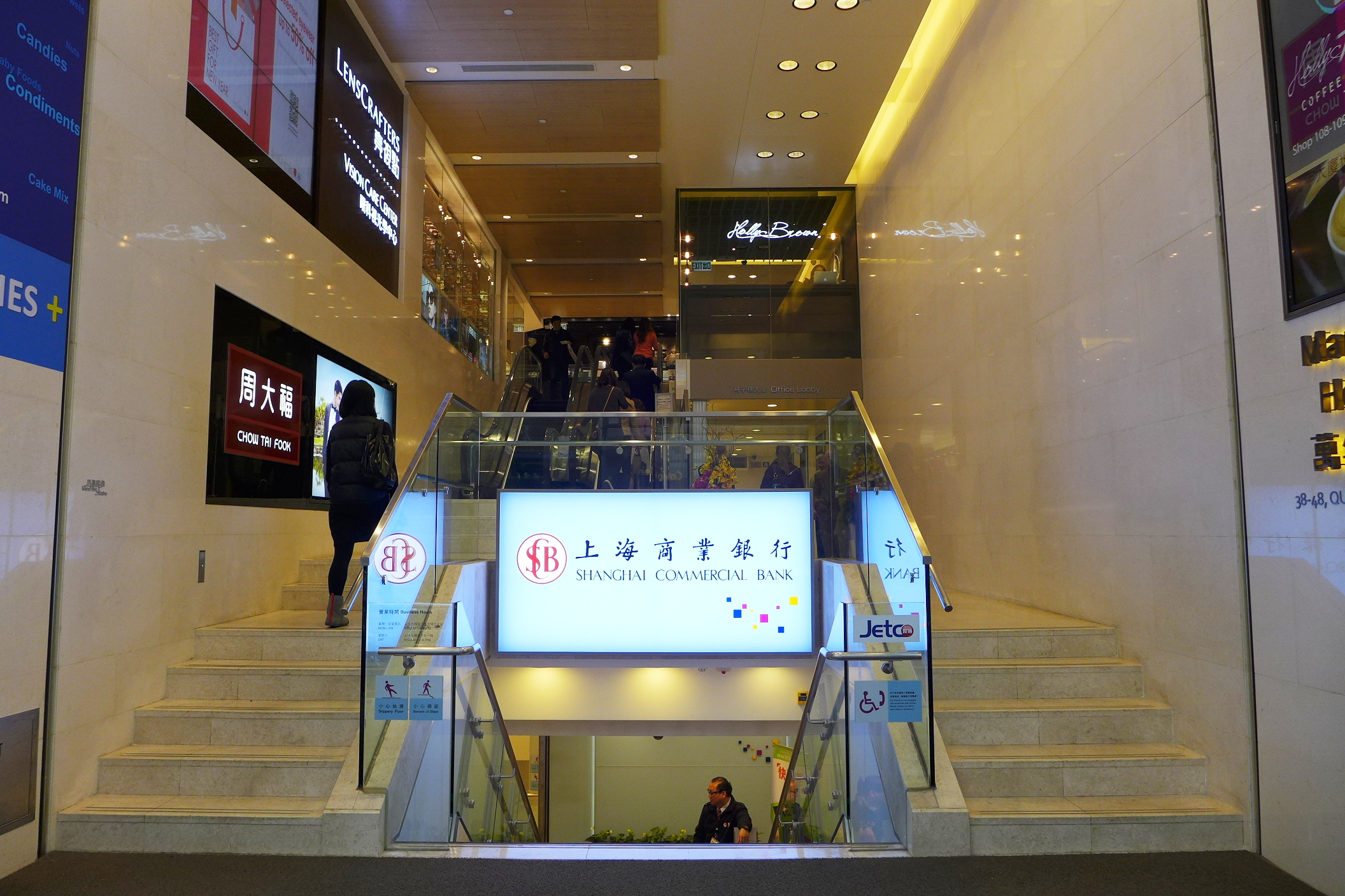 Manning House